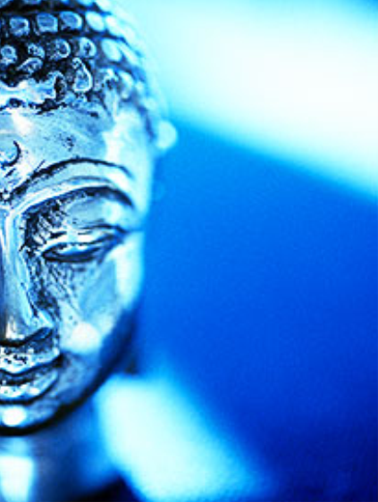 Statue representing Siddhartha Gautama.